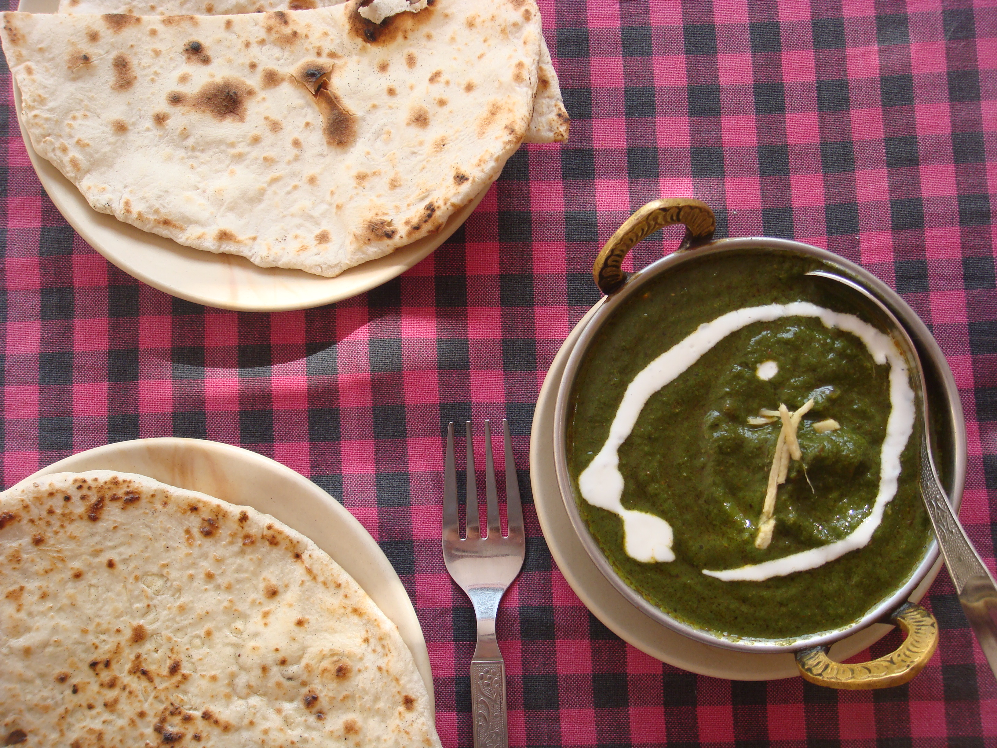 Mutton (goat in this case) saag served with naan at a restaurant in Jaisalmer. Photo taken Nov 2009.